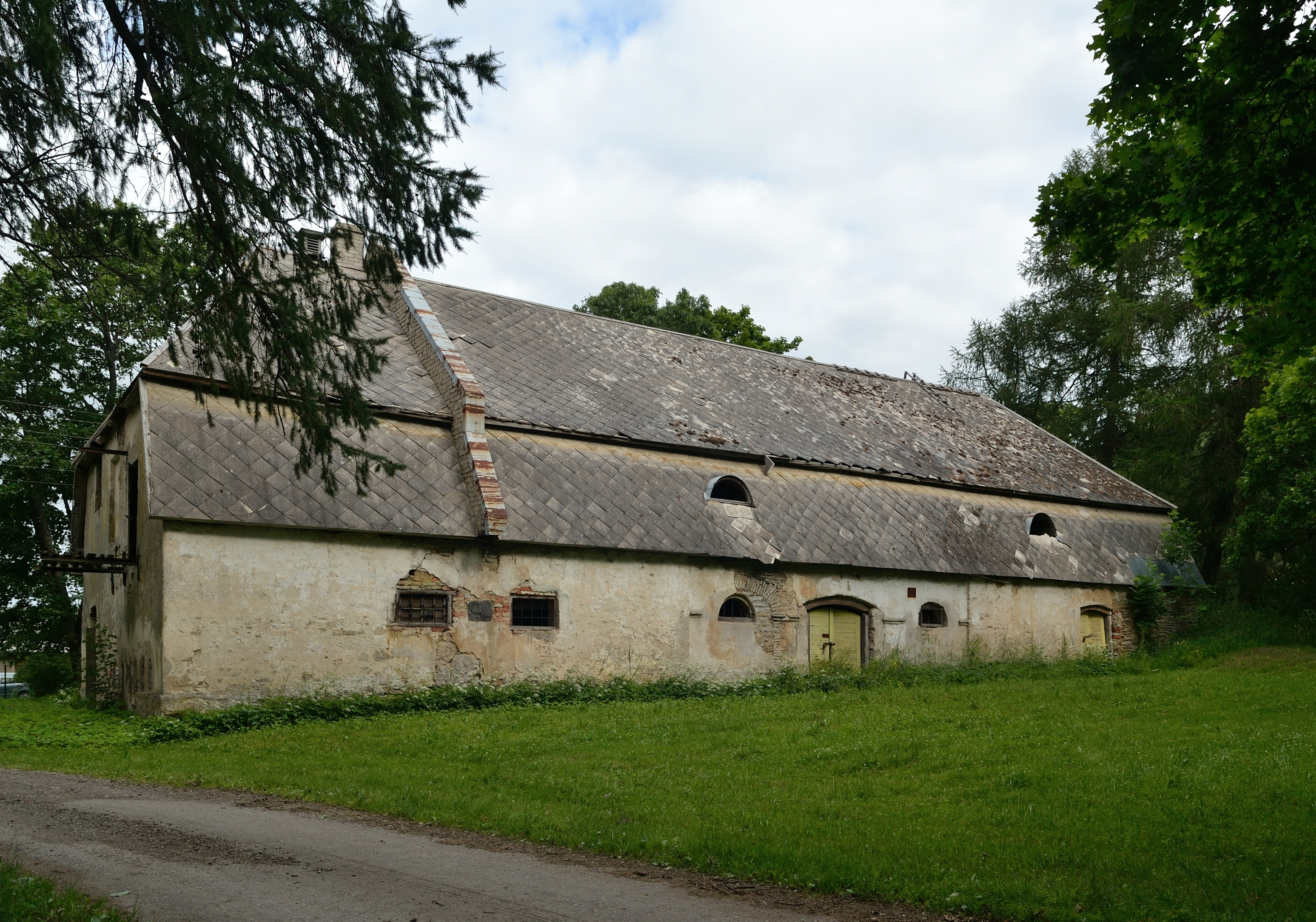 Valkla manor granary